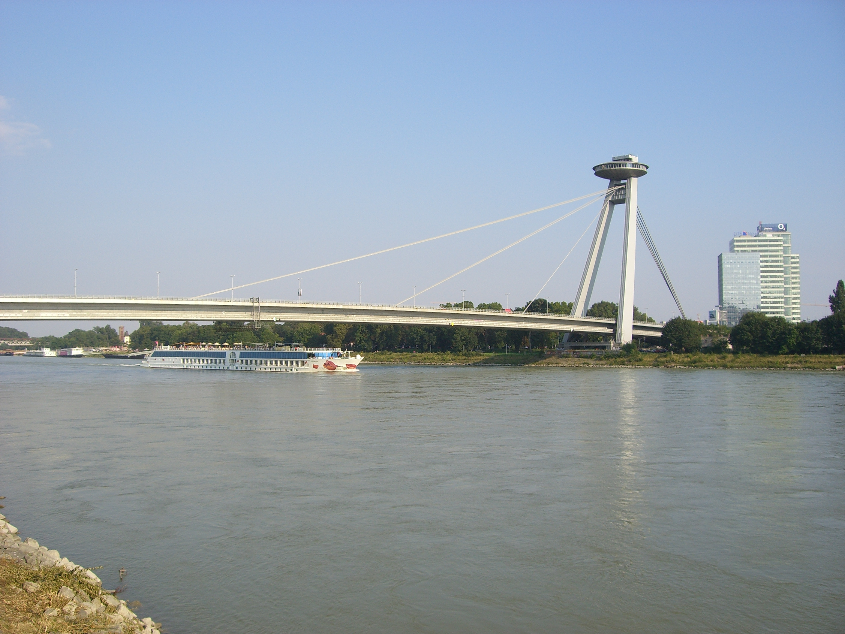 The UFO Bridge or New Bridge of Bratislava, Slovakia. Taken from the north bank of the Danube River to the west of the bridge.